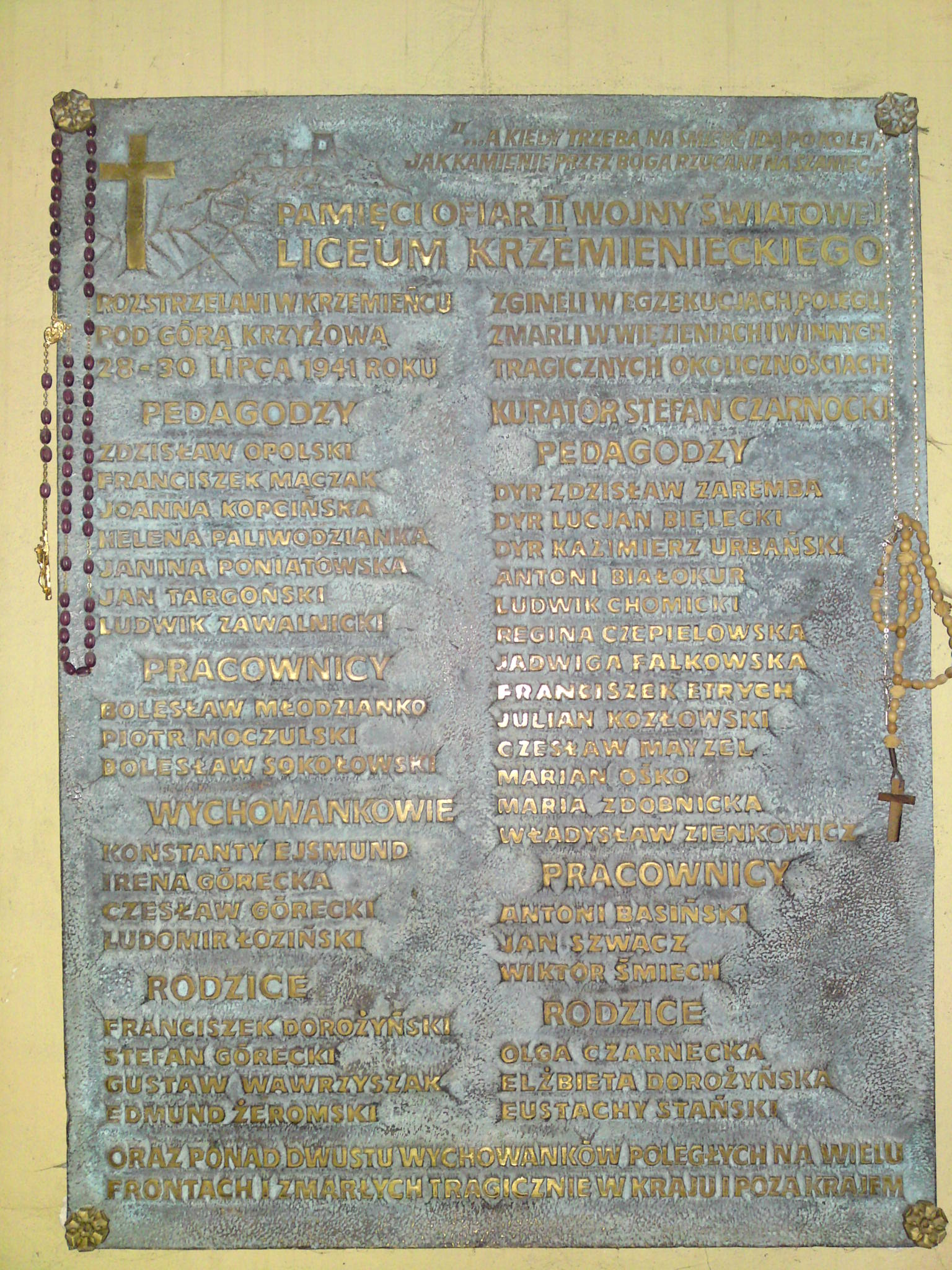 Memorial plaque in Catholic church in Kremenets dedicated to murdered Poles